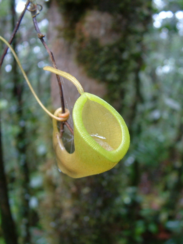 Nepenthes dubia growing at ~1,600 m asl